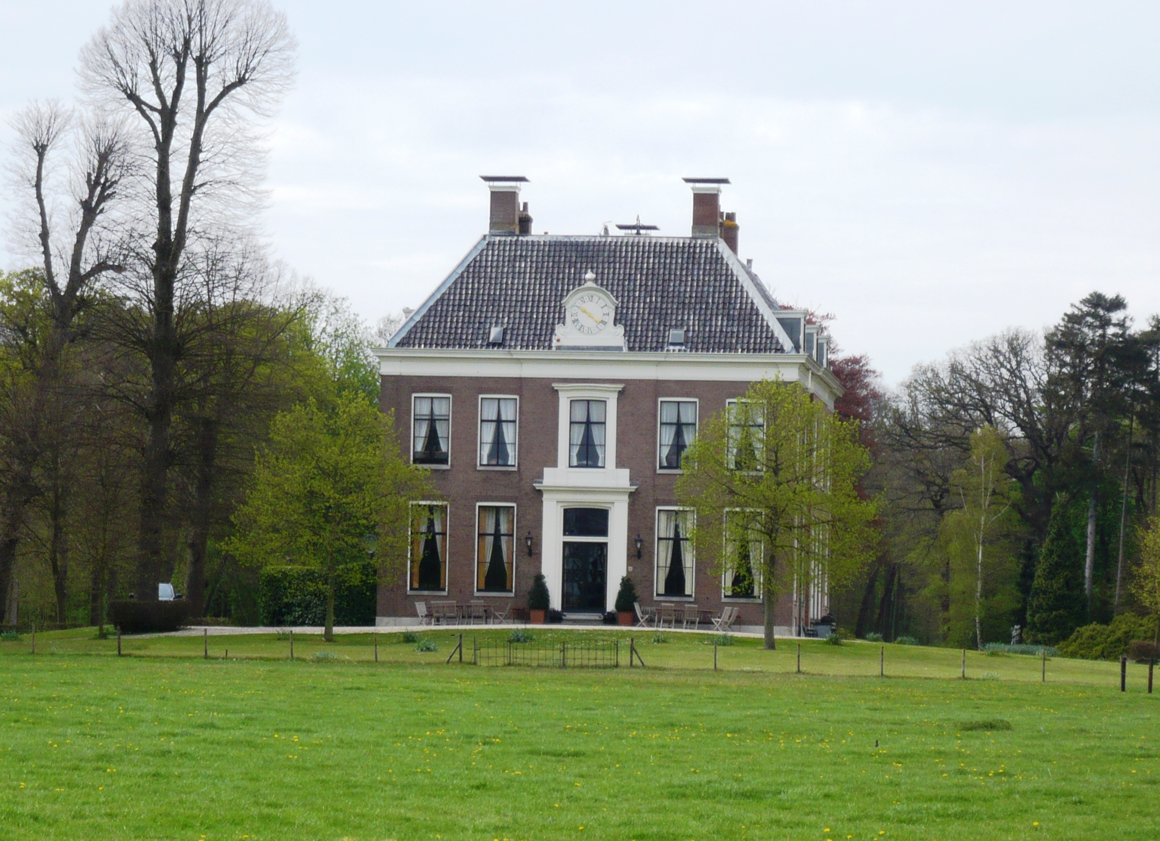 Huis te Vogelenzang, Bekslaan, Vogelenzang. The park is open to the public and a campground adjoins the park.